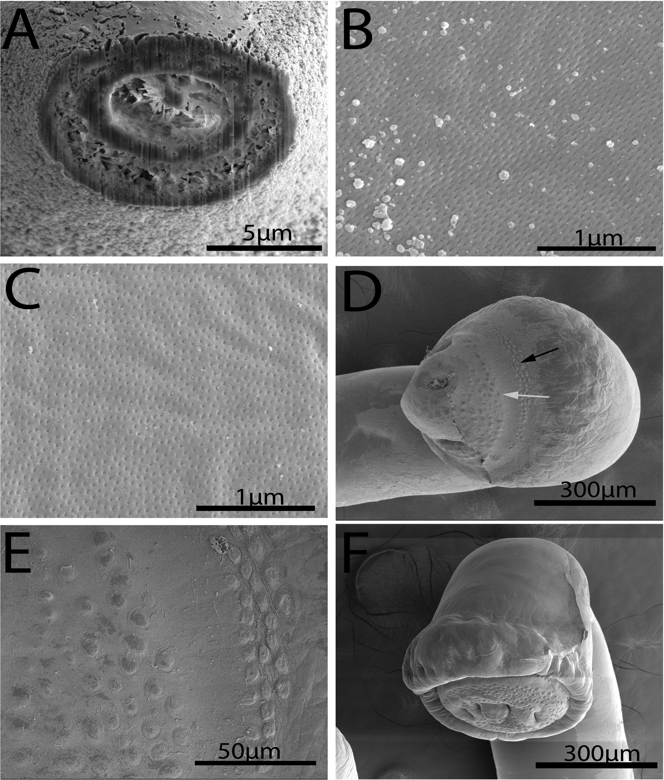 Figure 3 of paper. SEM image of specimens of Rhadinorhynchus oligospinosus Amin & Heckman, 2017 from Scomber japonicus and Trachurus murphyi from off the Pacific coast of Peru. (A) A gallium cut section of a trunk spine at its base showing the differentiation between its cortical and core layers and associated spaces. (B) Micropores at the anterior part of the trunk. (C) Micropores at the Bmid-section of the trunk. Note the difference in the diameter and distribution of micropores at different trunk regions. (D) A dorsal view of the bursa showing the distribution of the outer zone (black arrow) and the inner zone (white arrow) of sensory receptors. (E) A larger magnification of sensory receptors in the outer and inner zones. (F) A ventro-dorsal perspective of a bursa showing its thick muscular margin and its terminal gonopore and appendage.